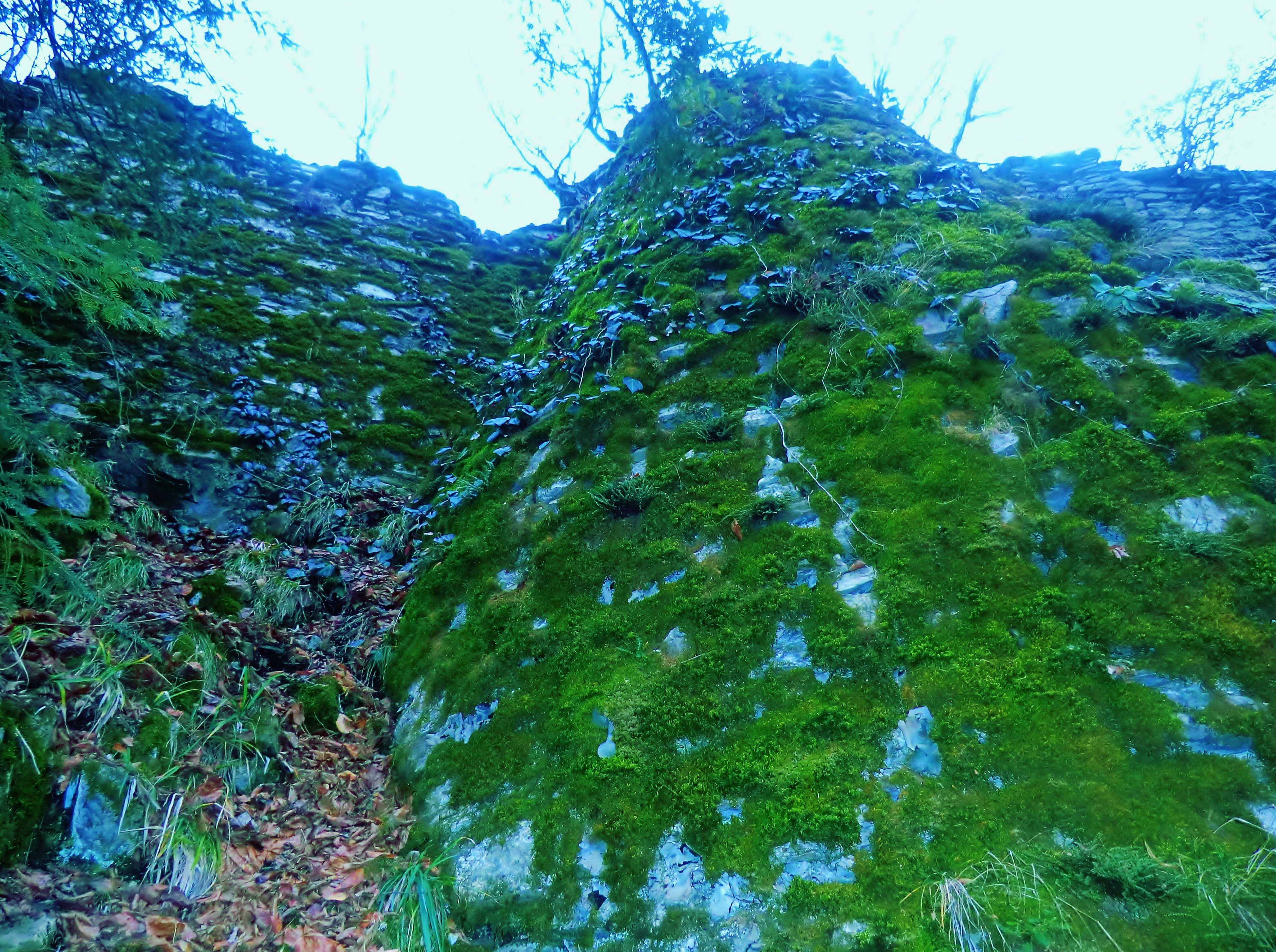 Cinli qala